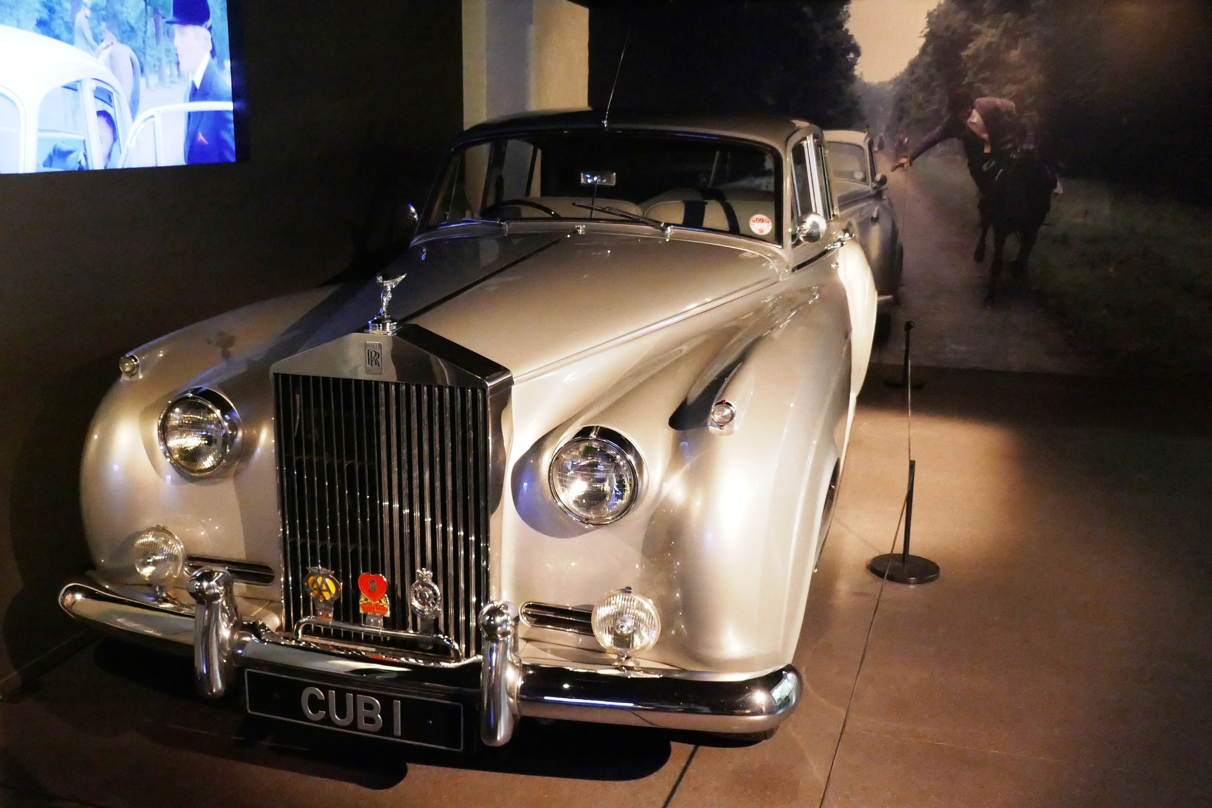 Rolls-Royce Silver Cloud II from the movie "A View to a Kill" National Film Museum, London - Bond in Motion Exhibition (2017)